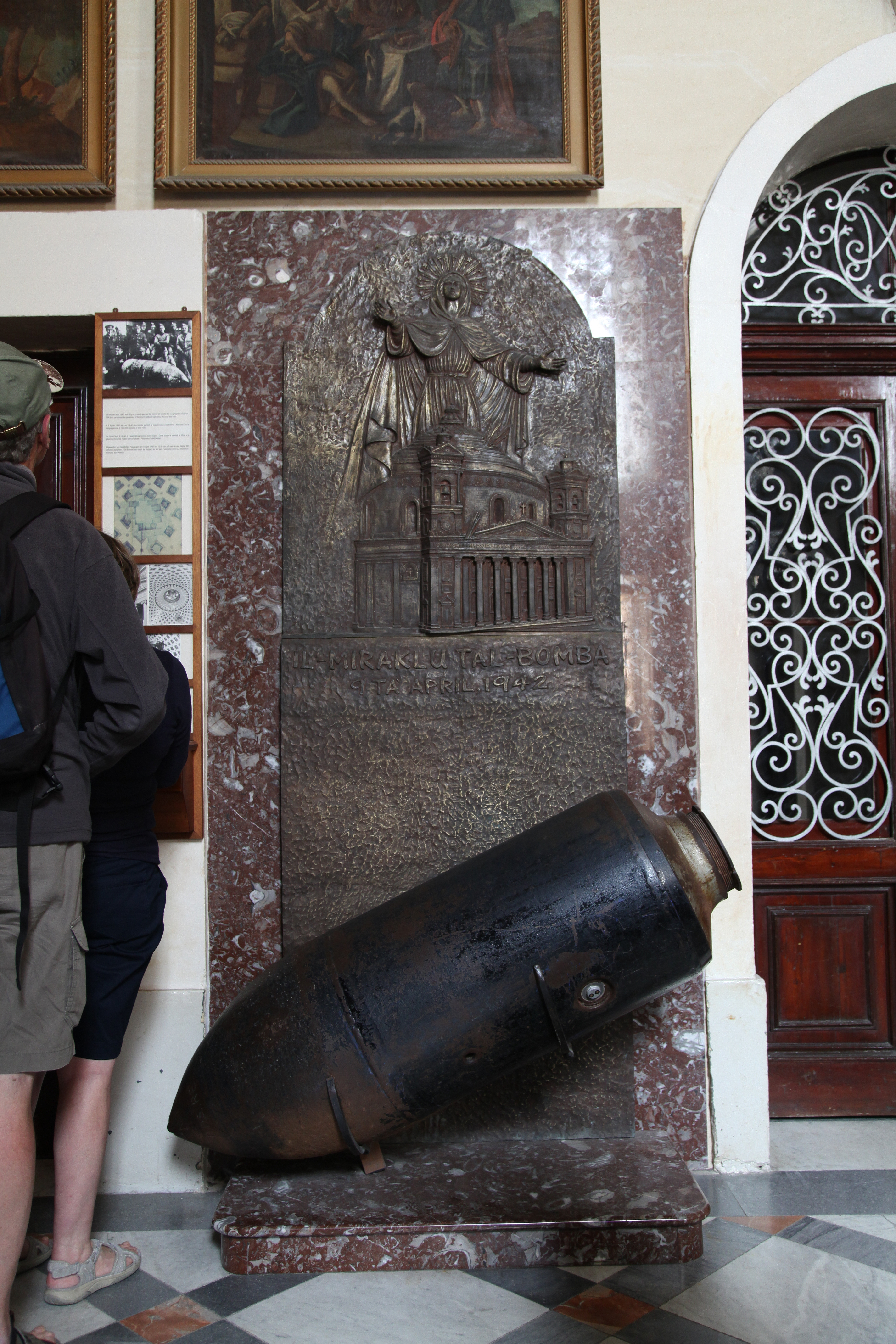 "Il-Miraklu tal-Bomba" in the sacristy of the Rotunda of St. Marija Assunta in Mosta, Malta